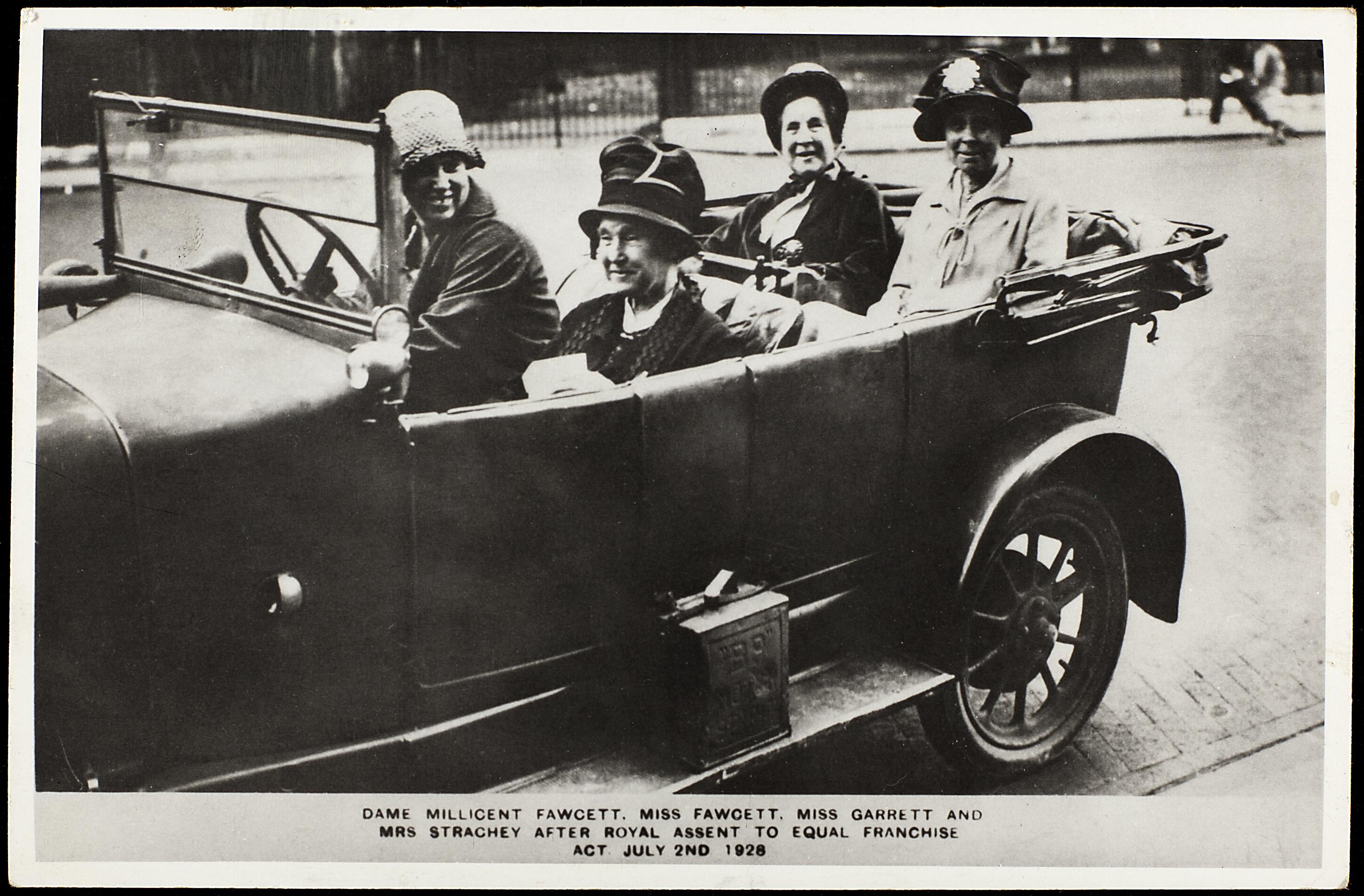 TWL.2002.329